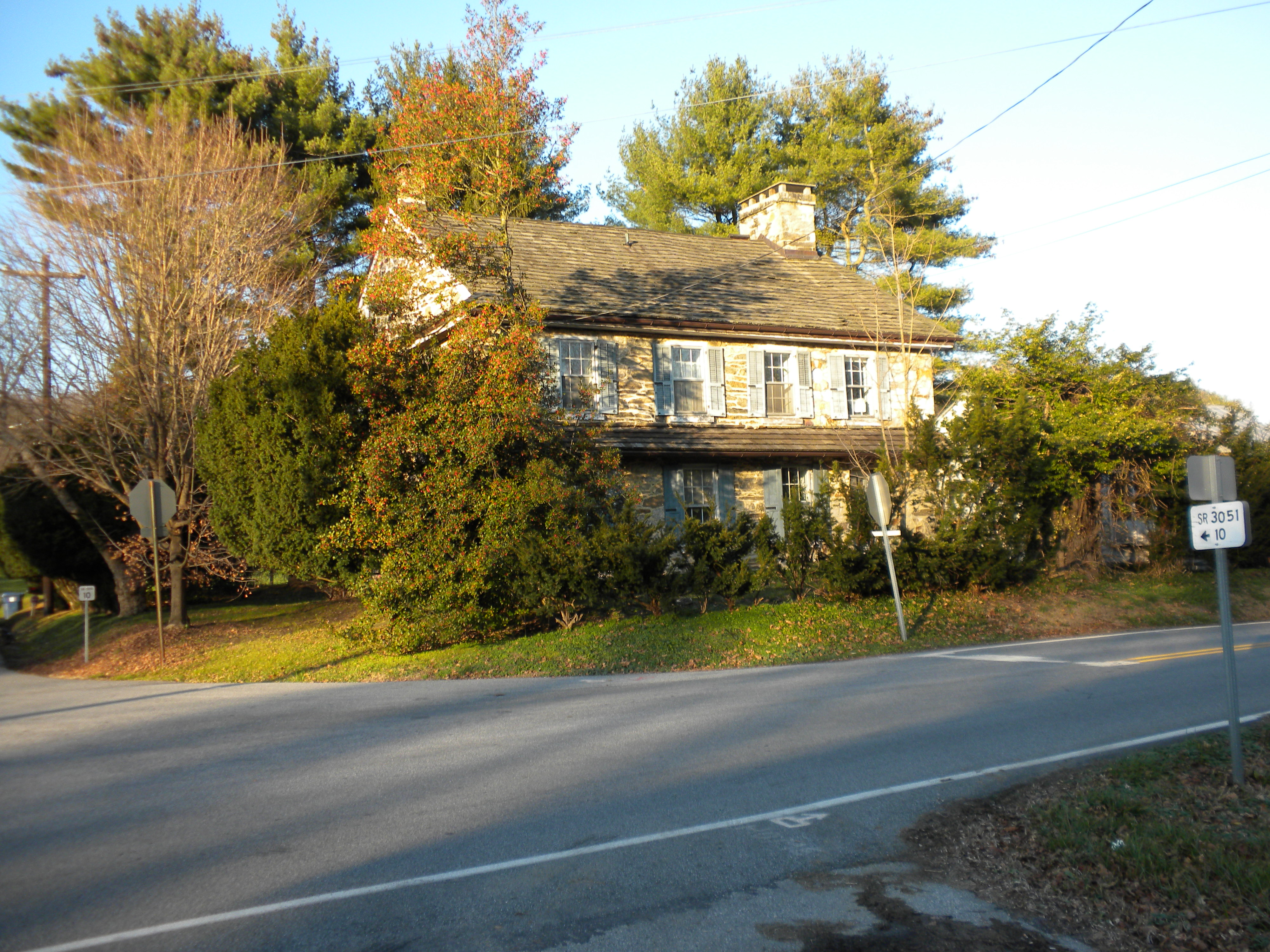 John Harlan Farm, aka Stargazers' Farm, in Embreeville, Pa in Chester County at PA 162 and Stargazers' Road. On NRHP. This photo is my own work and I donate it to the public domain.